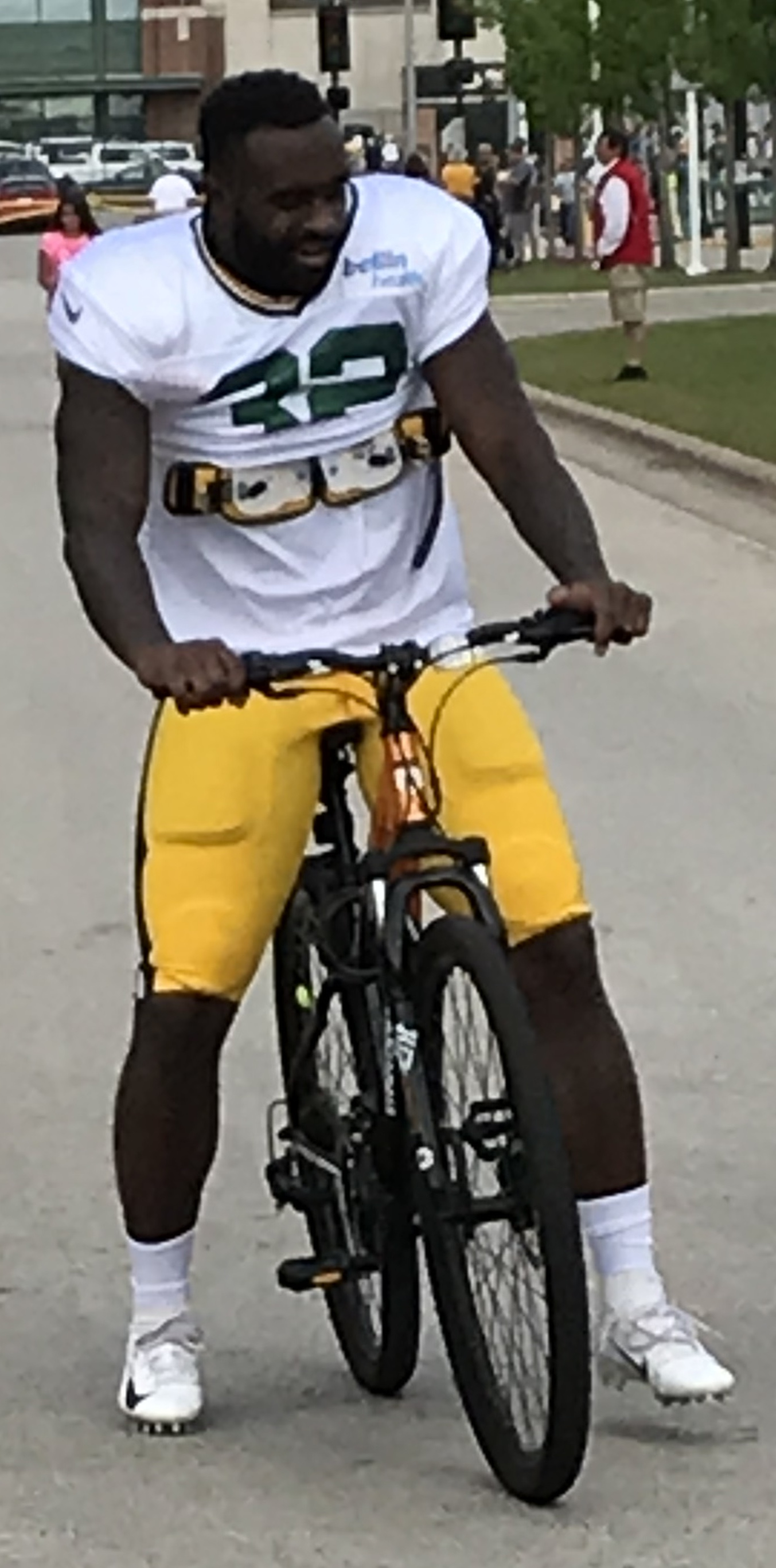 Tra Carson, a running back for the Green Bay Packers, before a training camp practice on August 13, 2019.